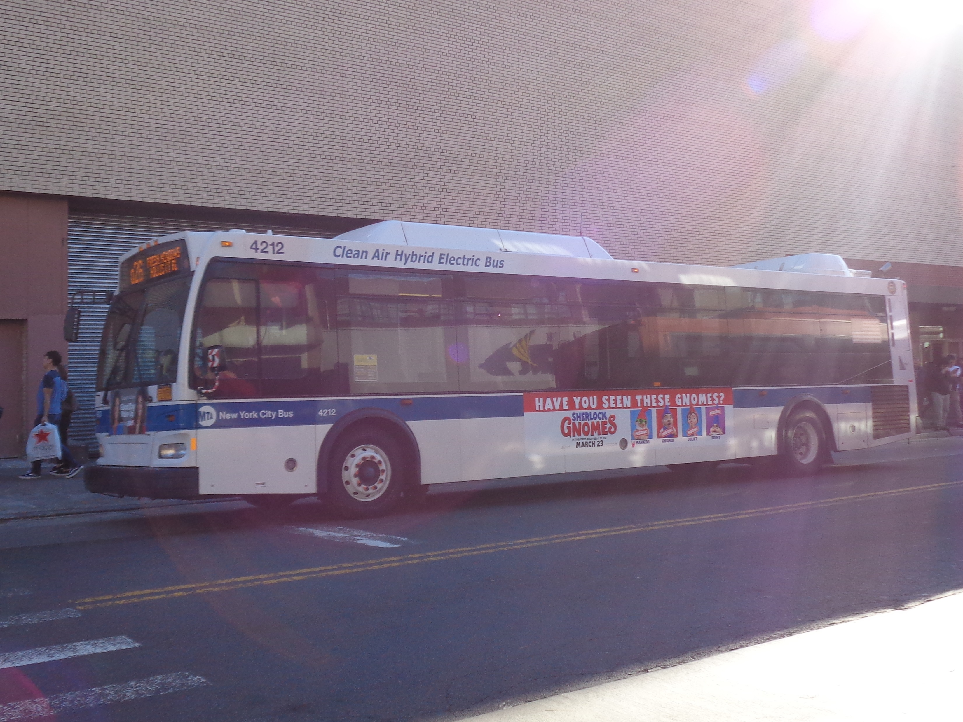 An Auburndale-bound Q26 bus on Roosevelt Avenue west of Main Street in Downtown Flushing, Queens.